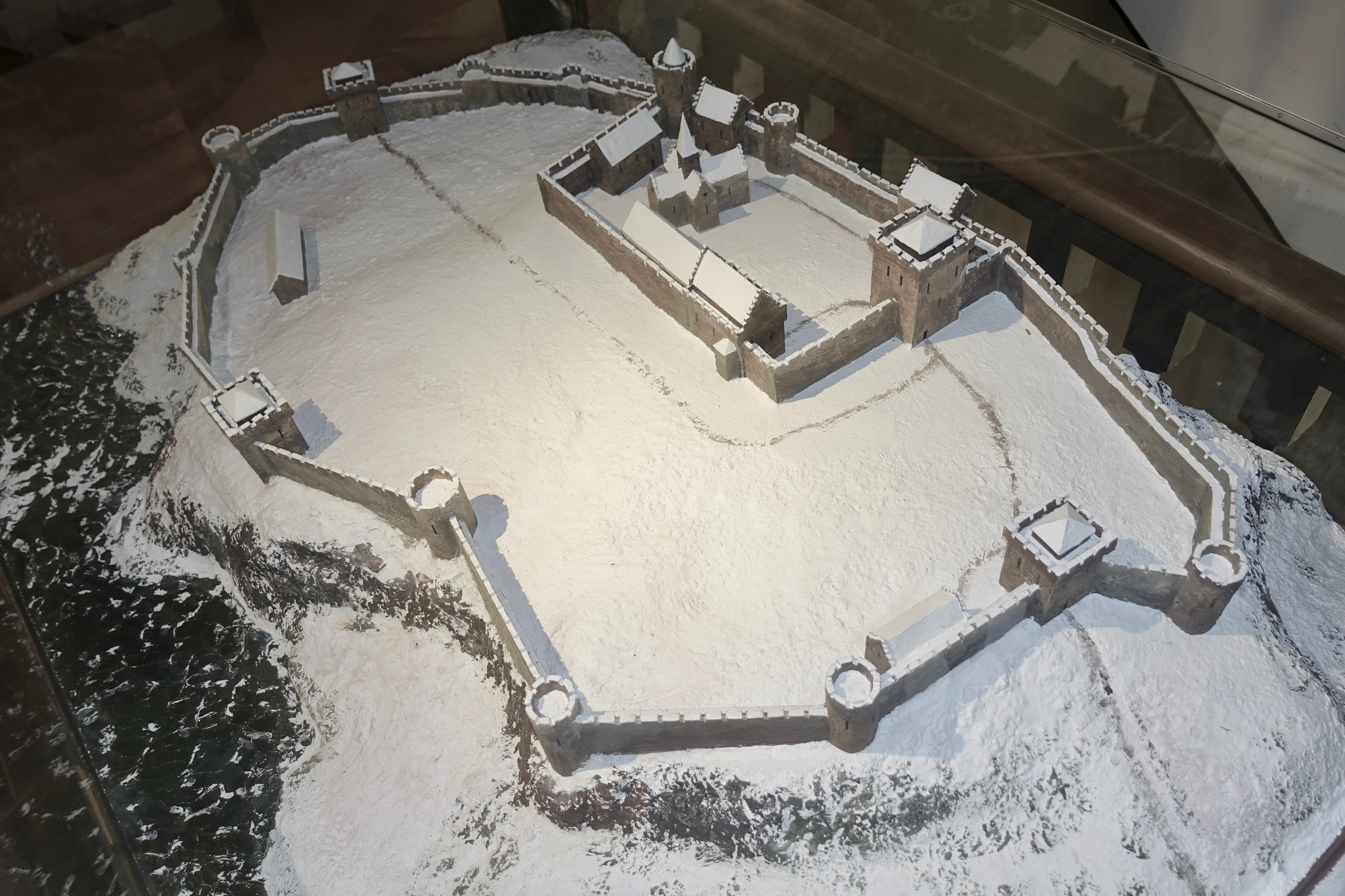 Model of the Tunsberghus Fortress, founded ca. 1000, burned down in 1503, on the Slottsfjellet Mountain in Tønsberg, Norway's oldest town, founded in 871. Exhibition model by Major Andreas Hauge on display at the Armed Forces Museum of Norway at Akershus Fortress in Oslo, Norway. Photo taken on 2019-03-31